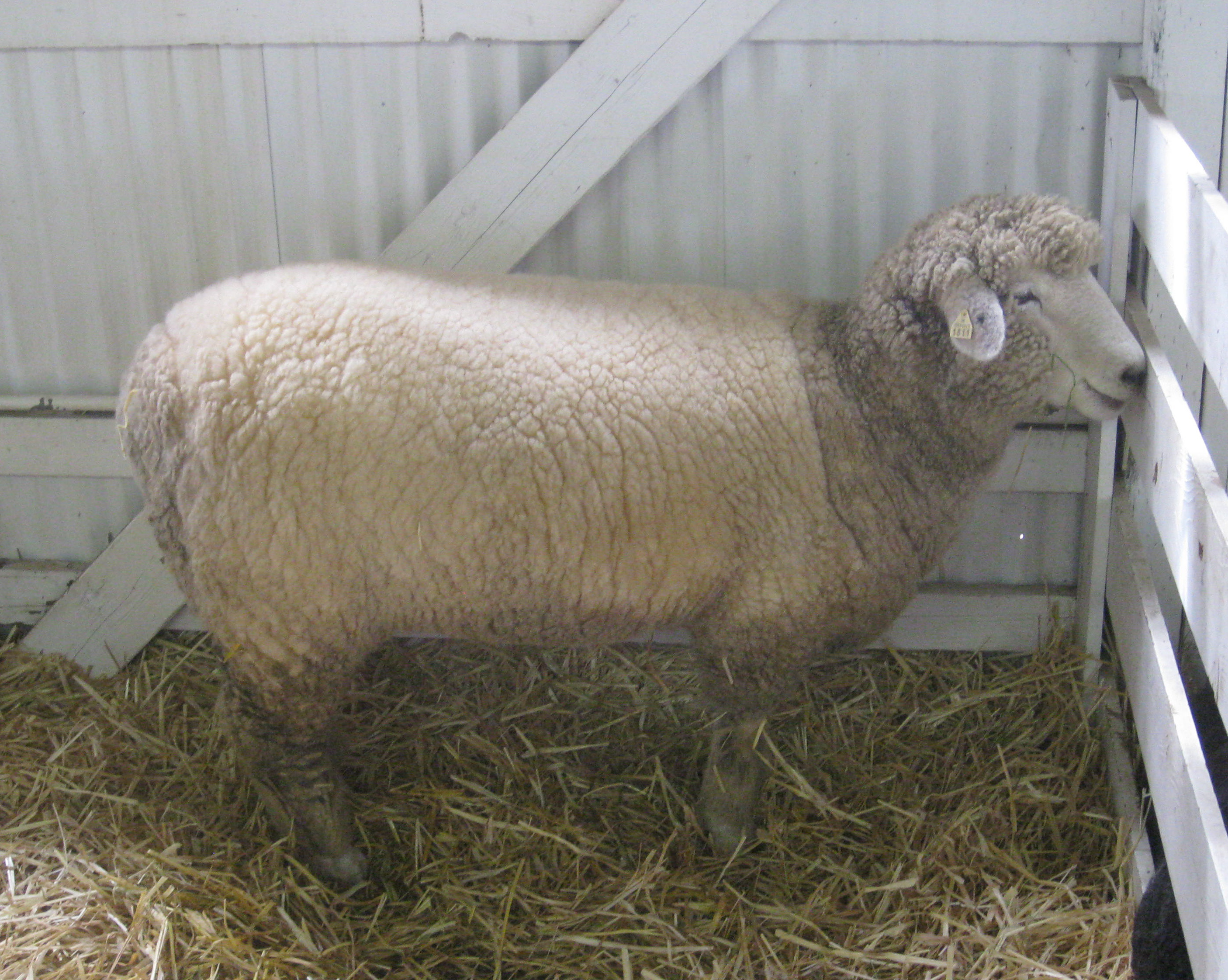 A white Romney at the Clark County fair in Washington